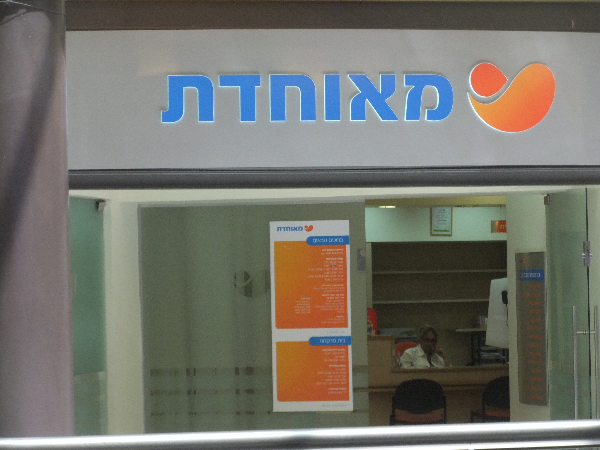 Meuhedet clinic in Pisgat Zeev mall